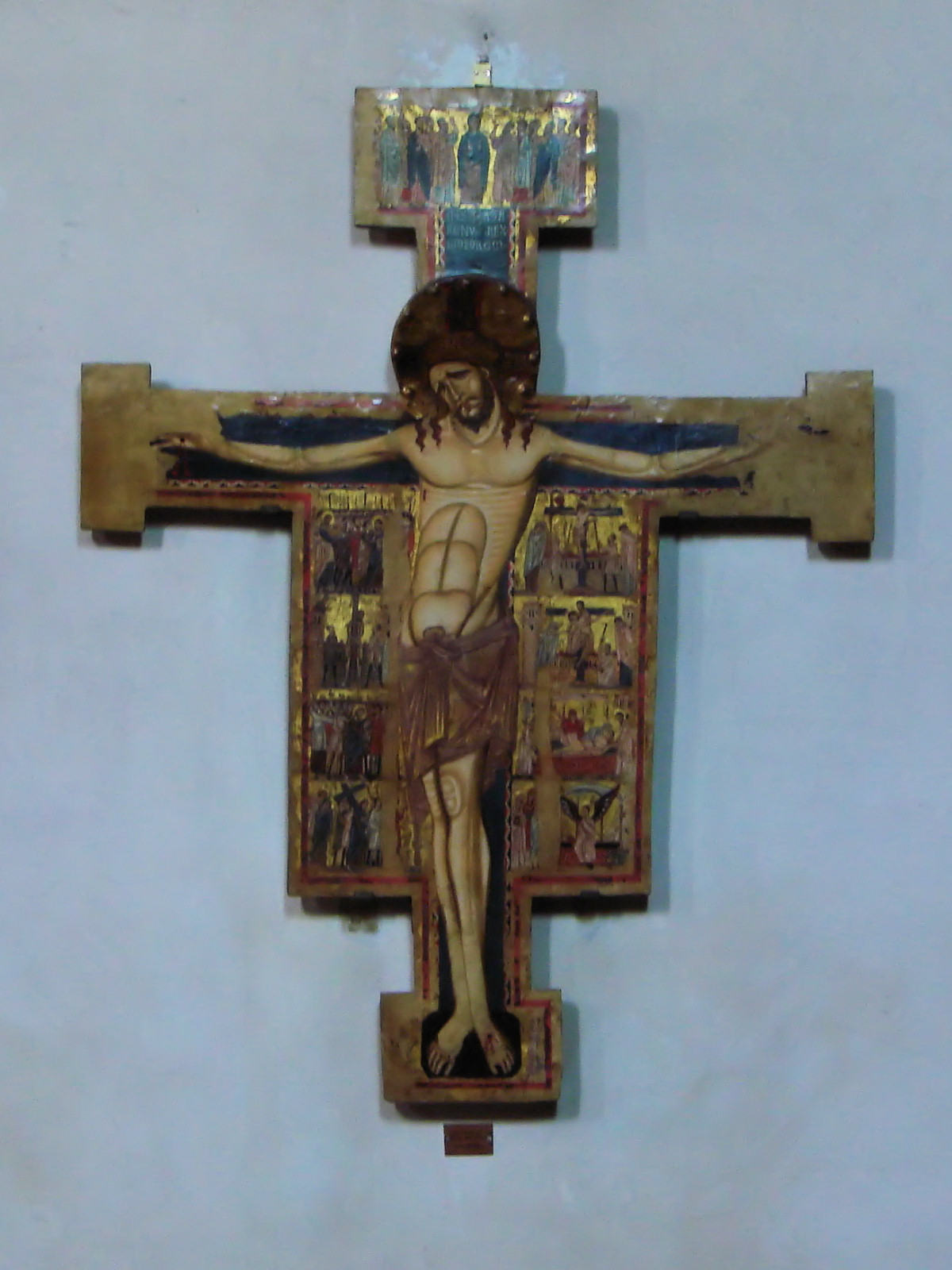 Cross painting on wooden table